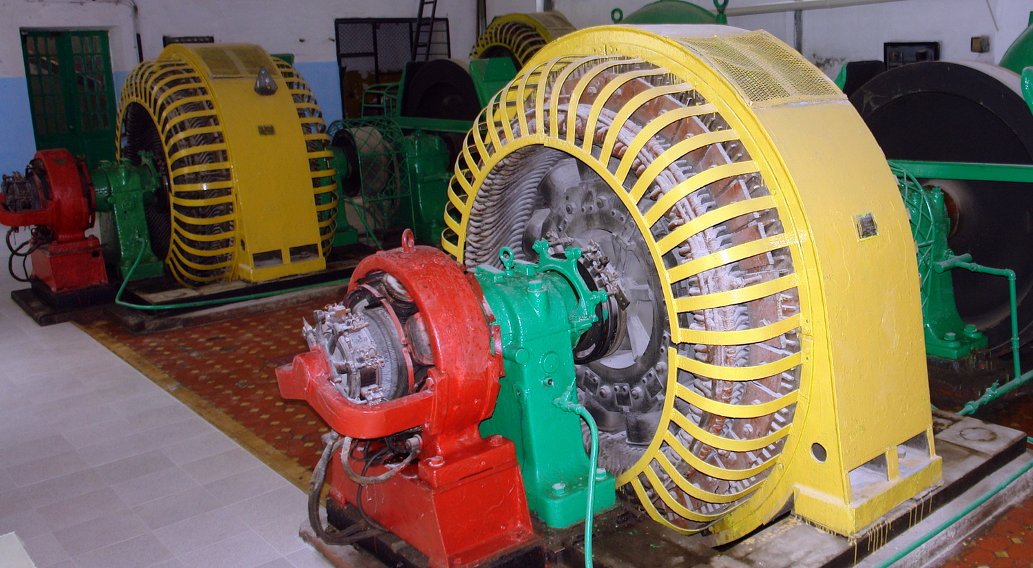 Gergebil HPP